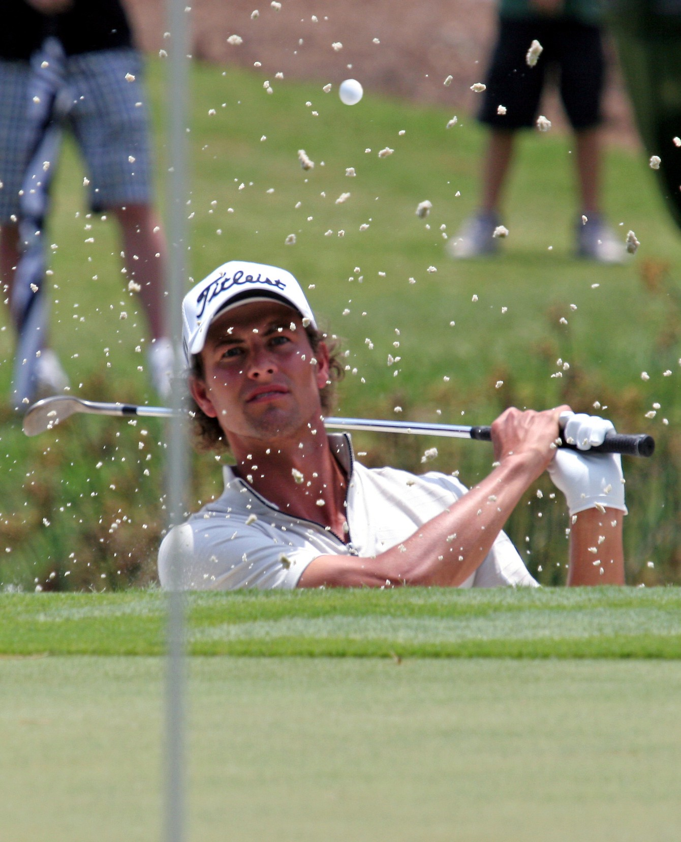 PGA golf professional Adam Scott chips out of the trap for par on #3 during the 2008 The Players Championship.